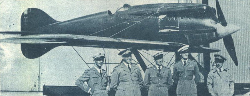 Italian team for Schneider Trophy race in 1929 (from left: Alberto Canaveri, Mario Bernasconi, Francesco Agello, Giovanni Monti and Remo Cadringher) in front of the Macchi M.39 seaplane.